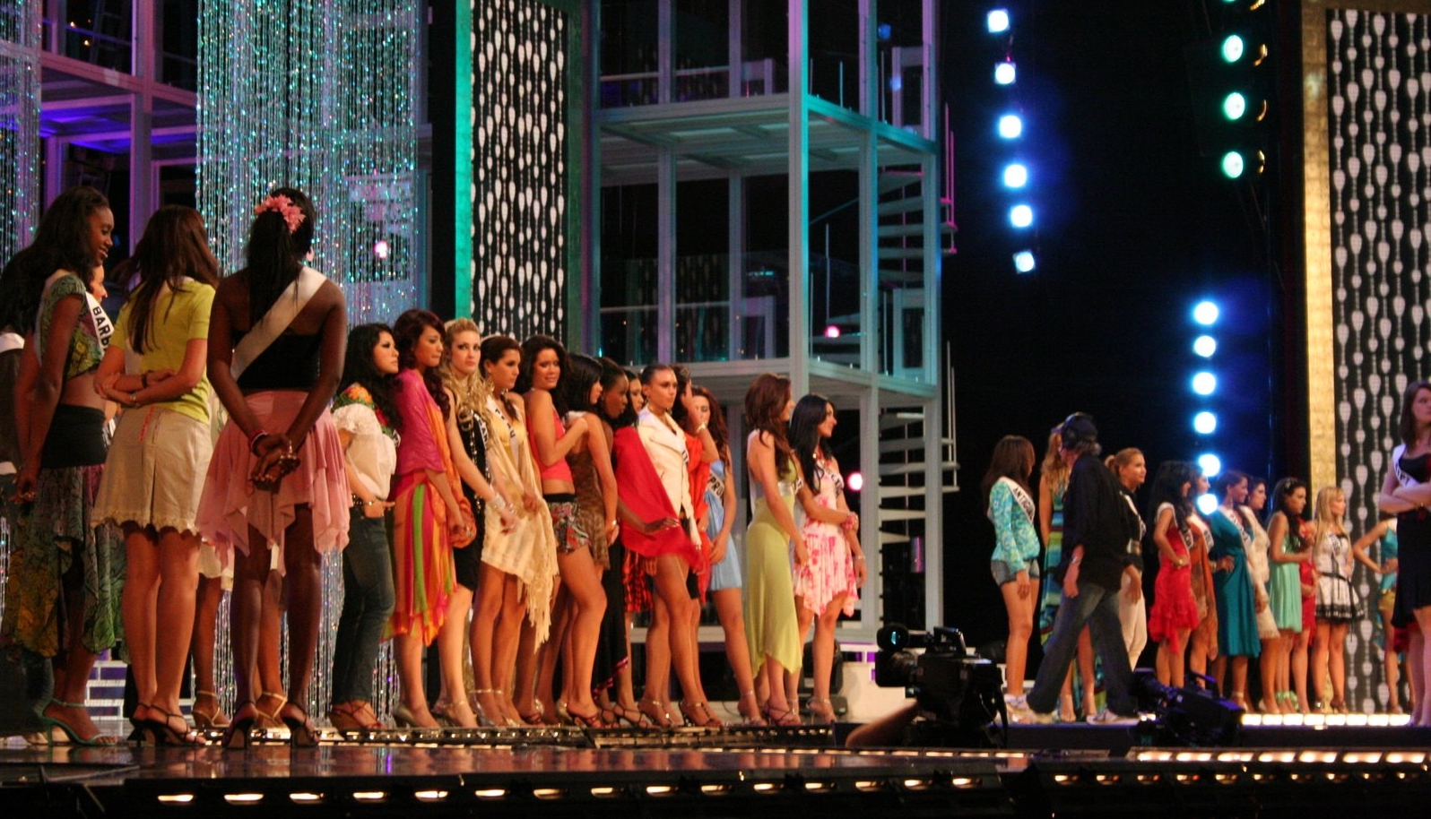 Contestants during rehearsals for the Miss Universe 2007 pageant in Mexico City, Mexico